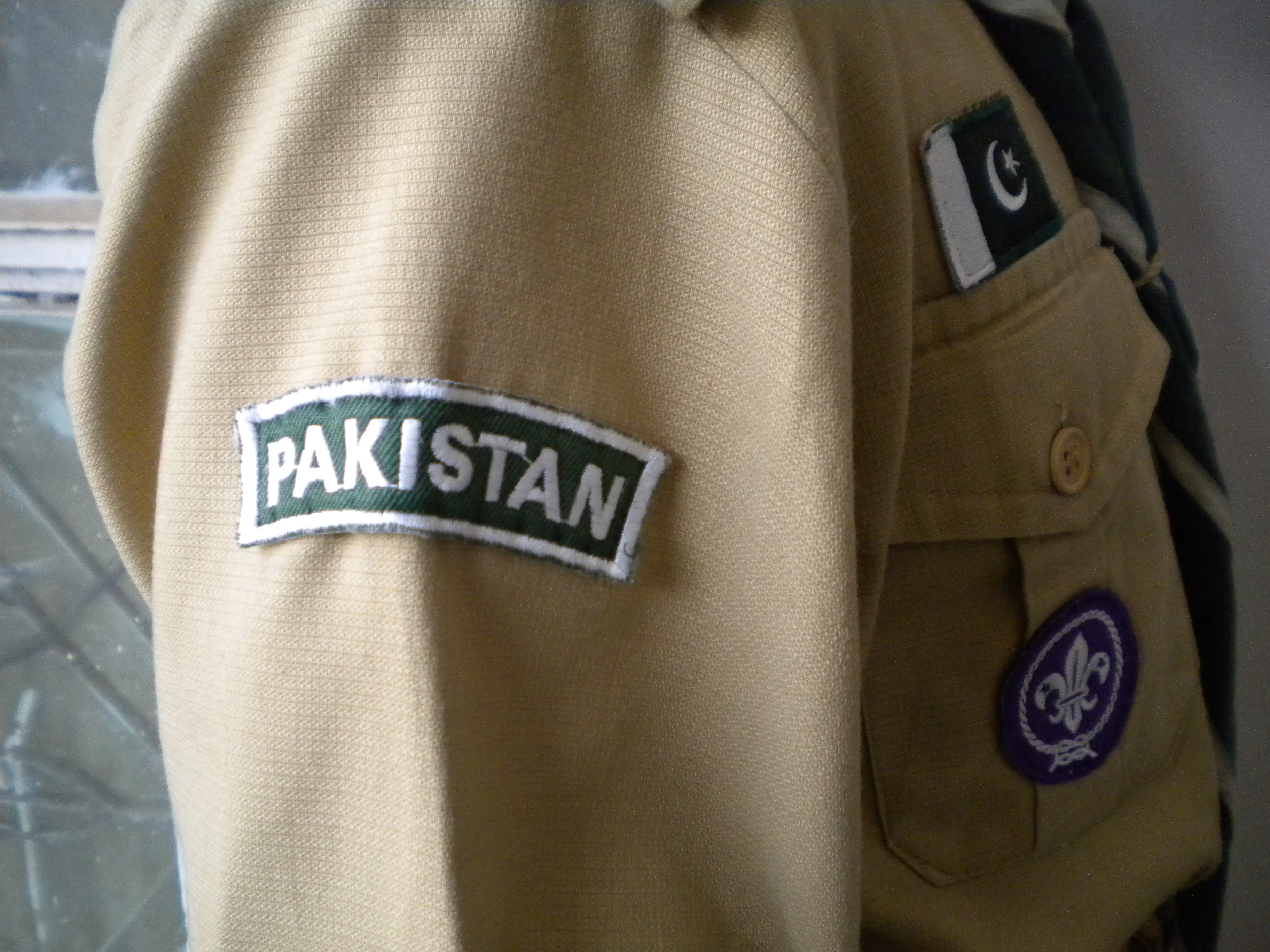 Right side of a Pakistani Scout uniform